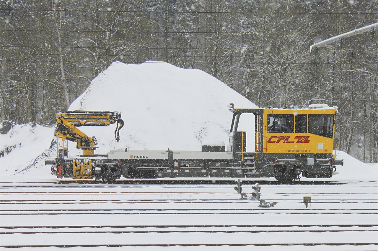 CFL 210 701 at Ettelbruck station.